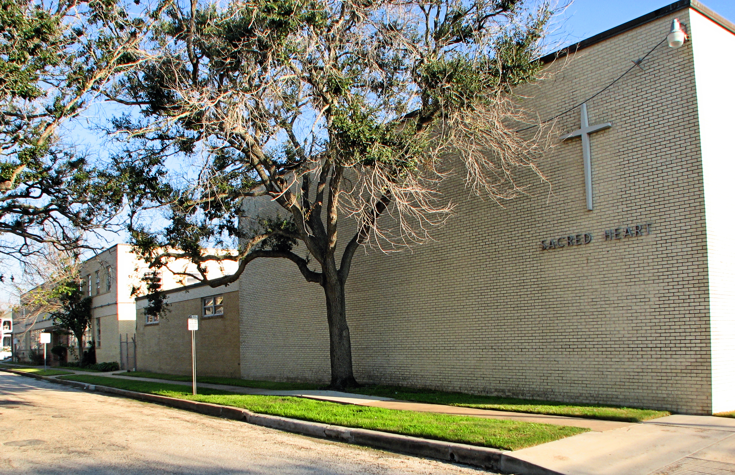 Sacred Heart Parish Elementary School, part of the Sacred Heart Catholic Church complex in Galveston, Texas. The Archdiocese of Galveston - Houston is tearing the campus down because the archdiocese no longer needs it. The source for the information presented is given on the talk page.